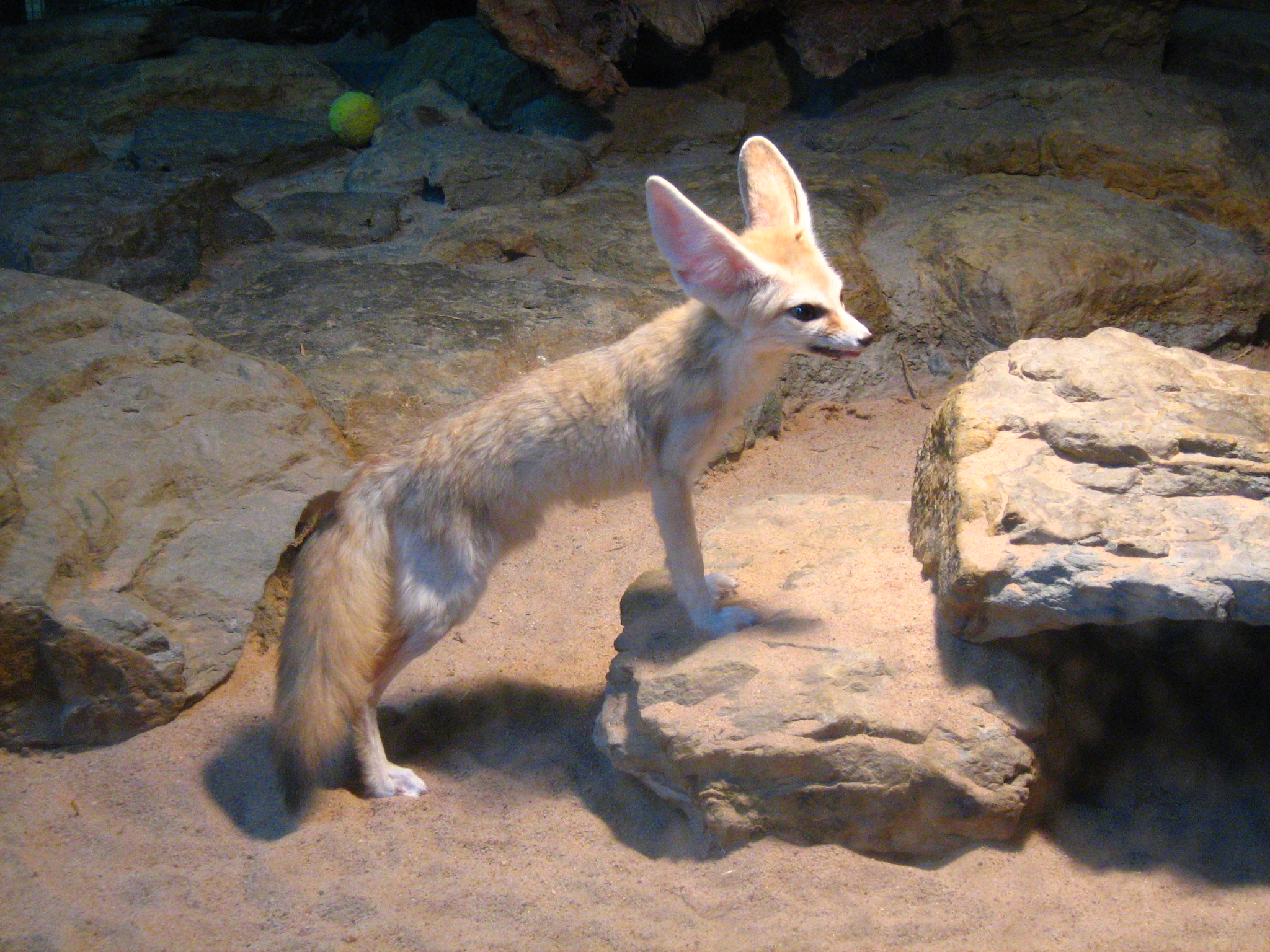 Fennec Fox (Vulpes zerda) Wilhelma Zoo, Stuttgart, Germany.